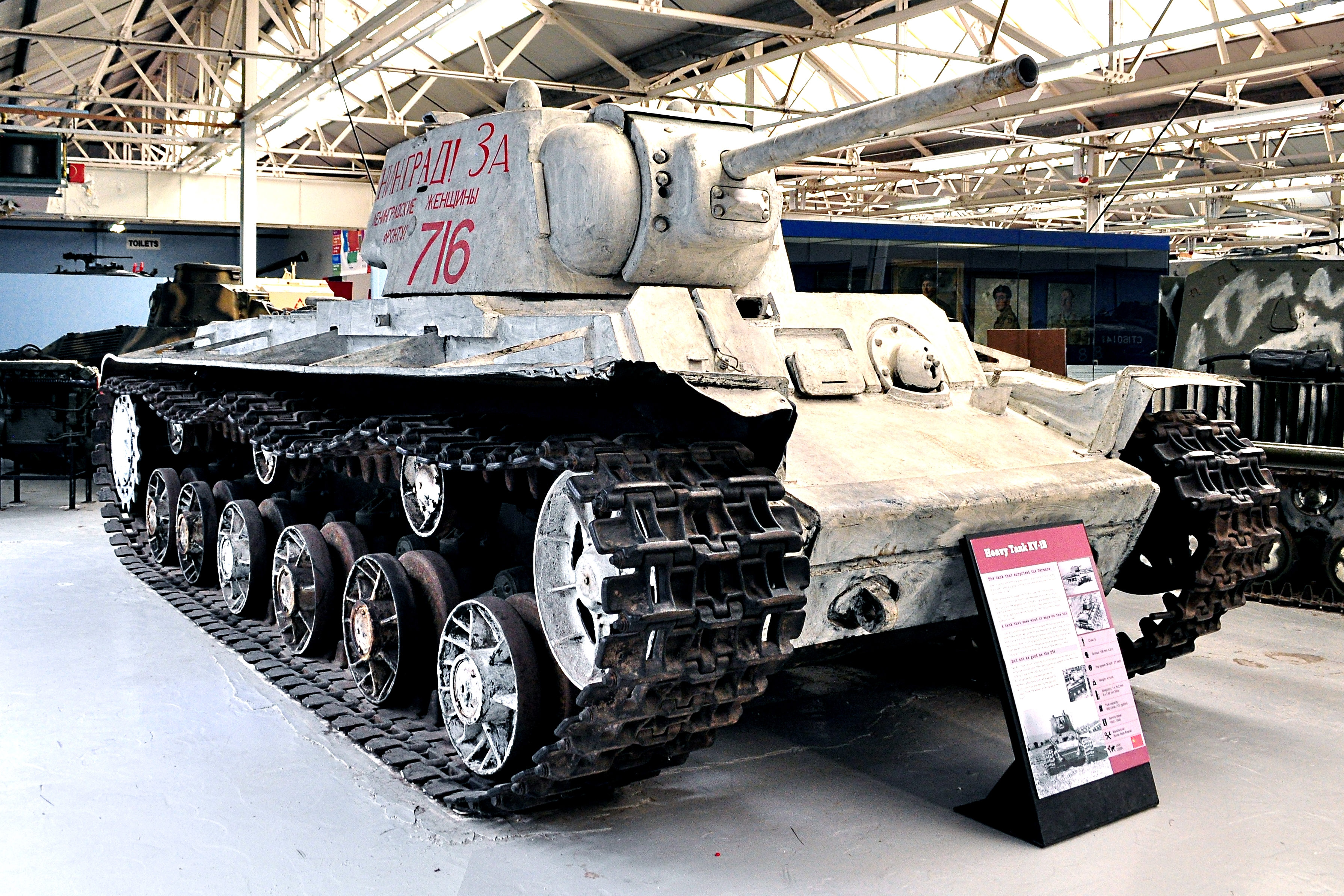 KV1B Heavy Tank at the Tank Museum, Bovington